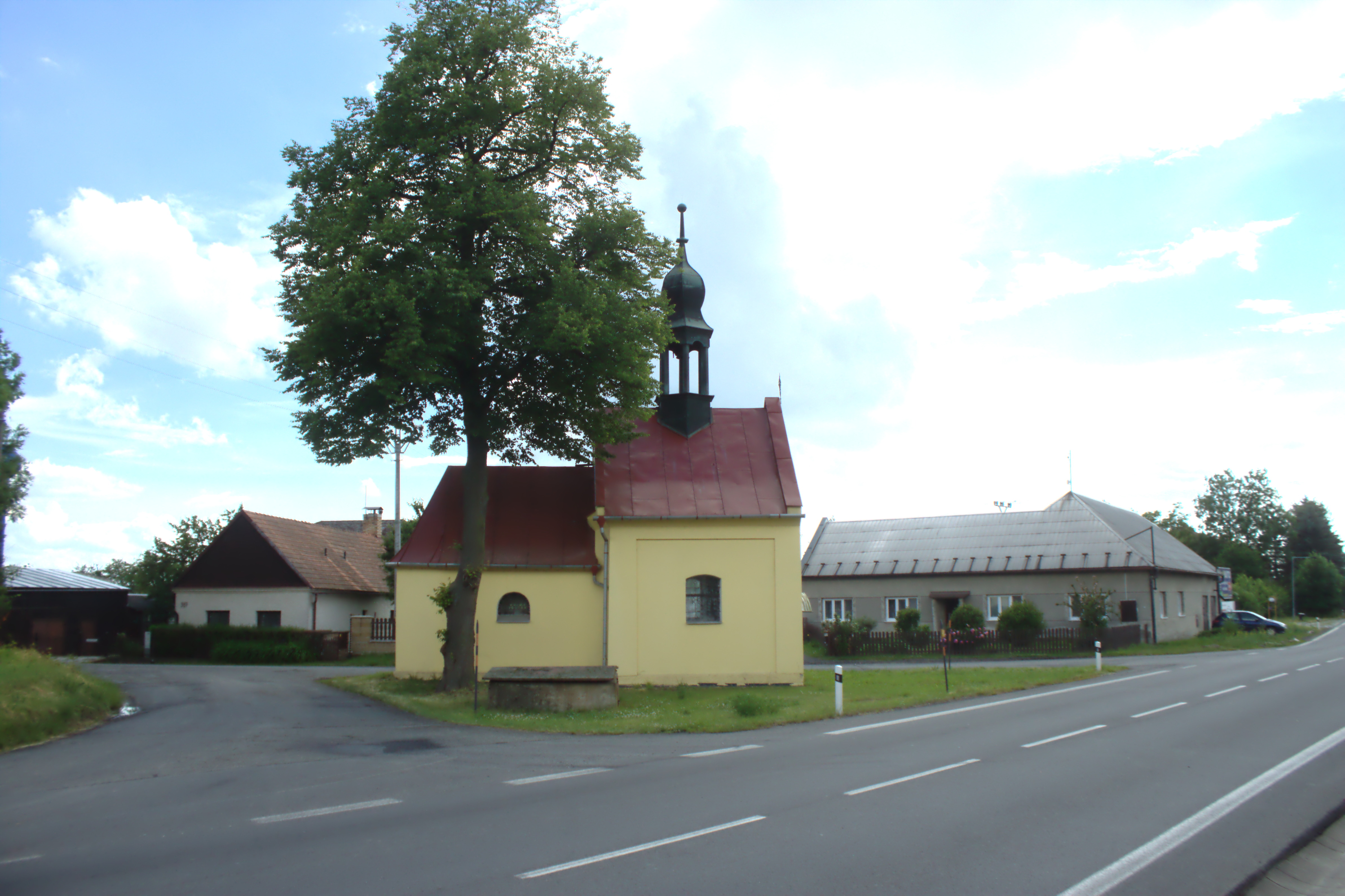 A chapel in the village of Brníčko, Olomouc Region, CZ